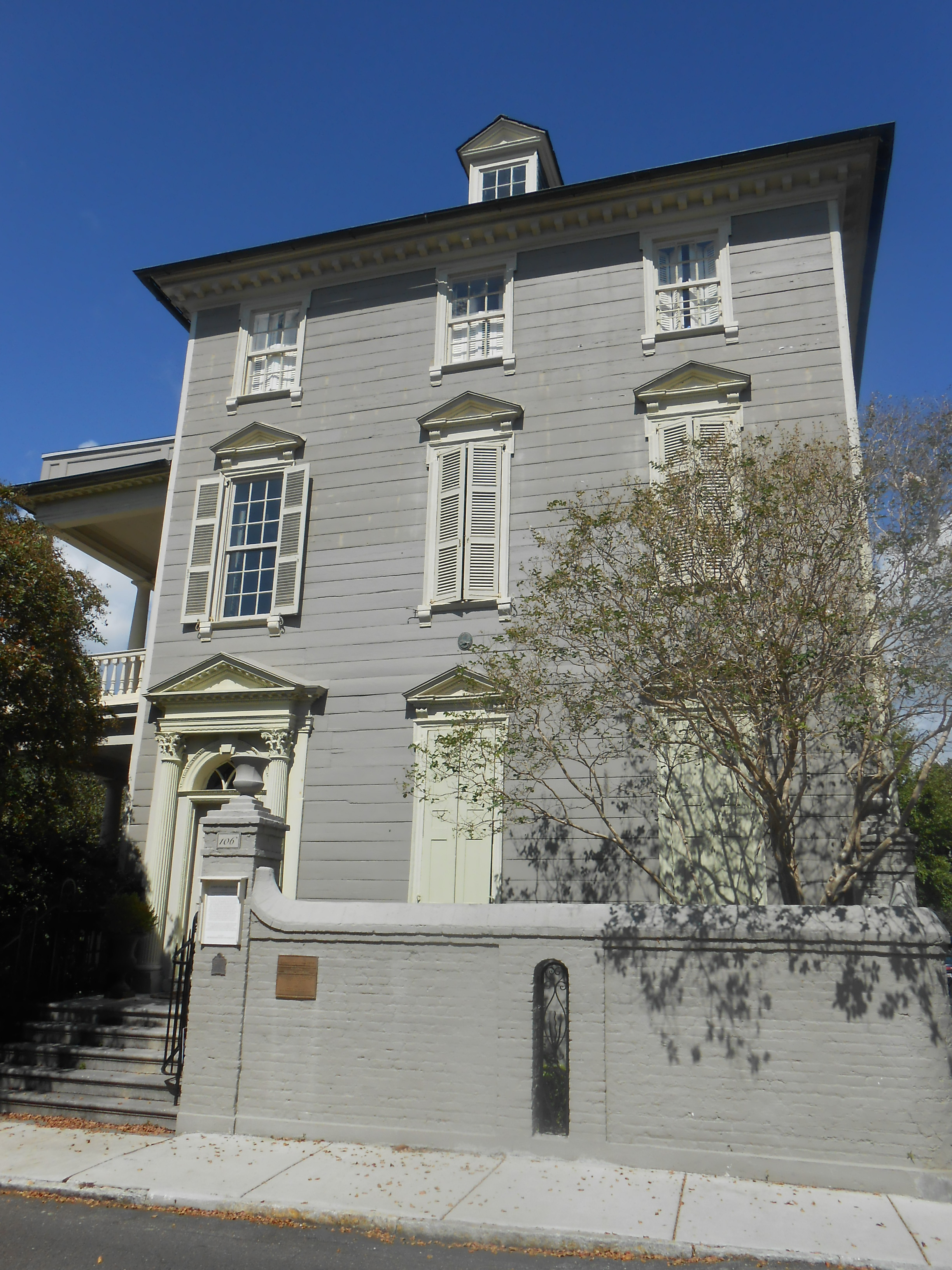 The Col. John Stuart House is a Colonial era house at 106 Tradd St., Charleston, South Carolina.